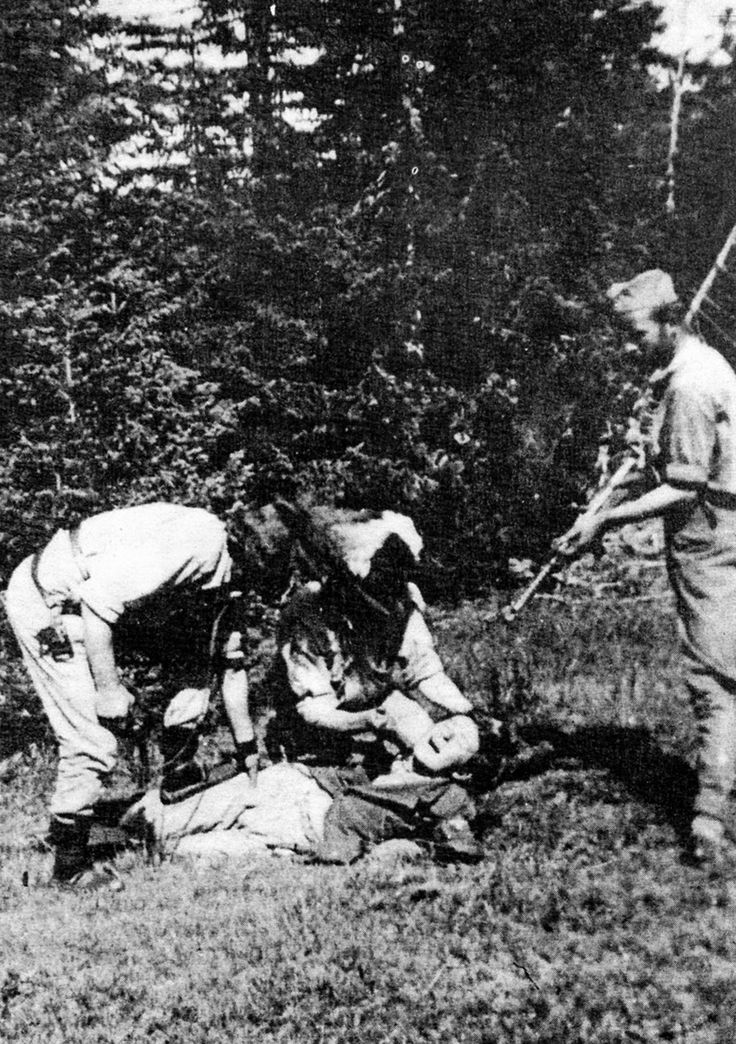 A band of Chetniks, somewhere in the mountains of Yugoslavia. The Chetniks were royalists and nationalists and fought against Tito's communist partisans. Chetnik "kolyachi" (literally 'cutters') were assigned the job of killing prisoners exclusively with knives.